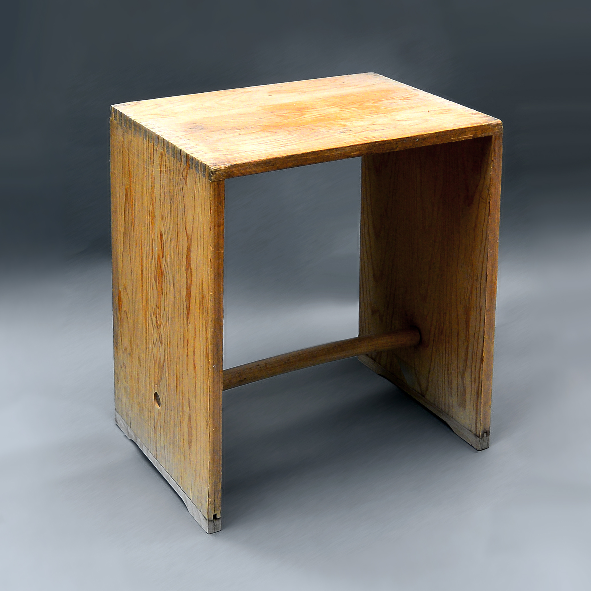 "Ulm stool" Reedition of the item used at HfG Ulm